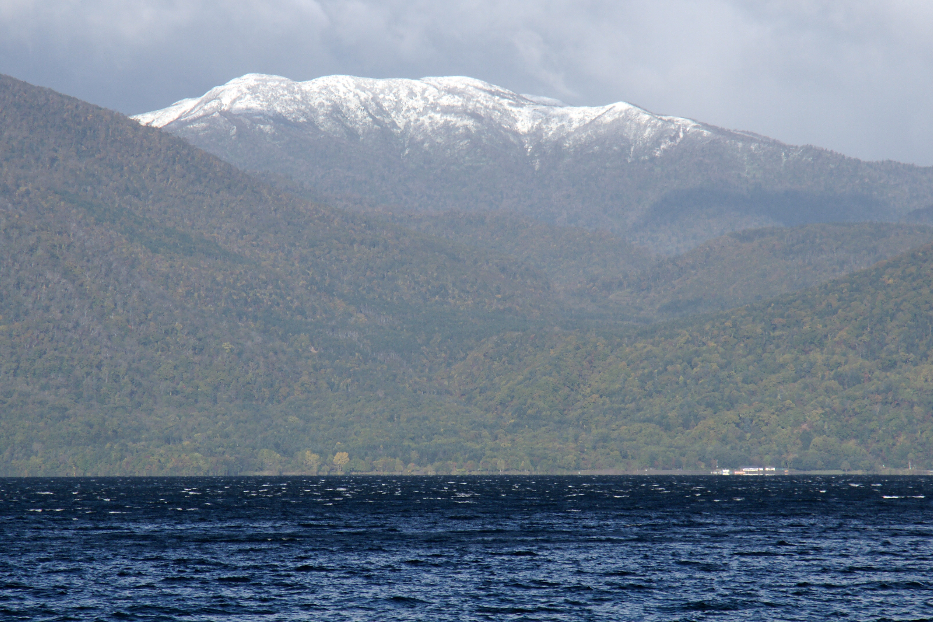 Mt. Izari-dake view from Lake Shikotsu, Chitose, Hokkaido prefecture, Japan